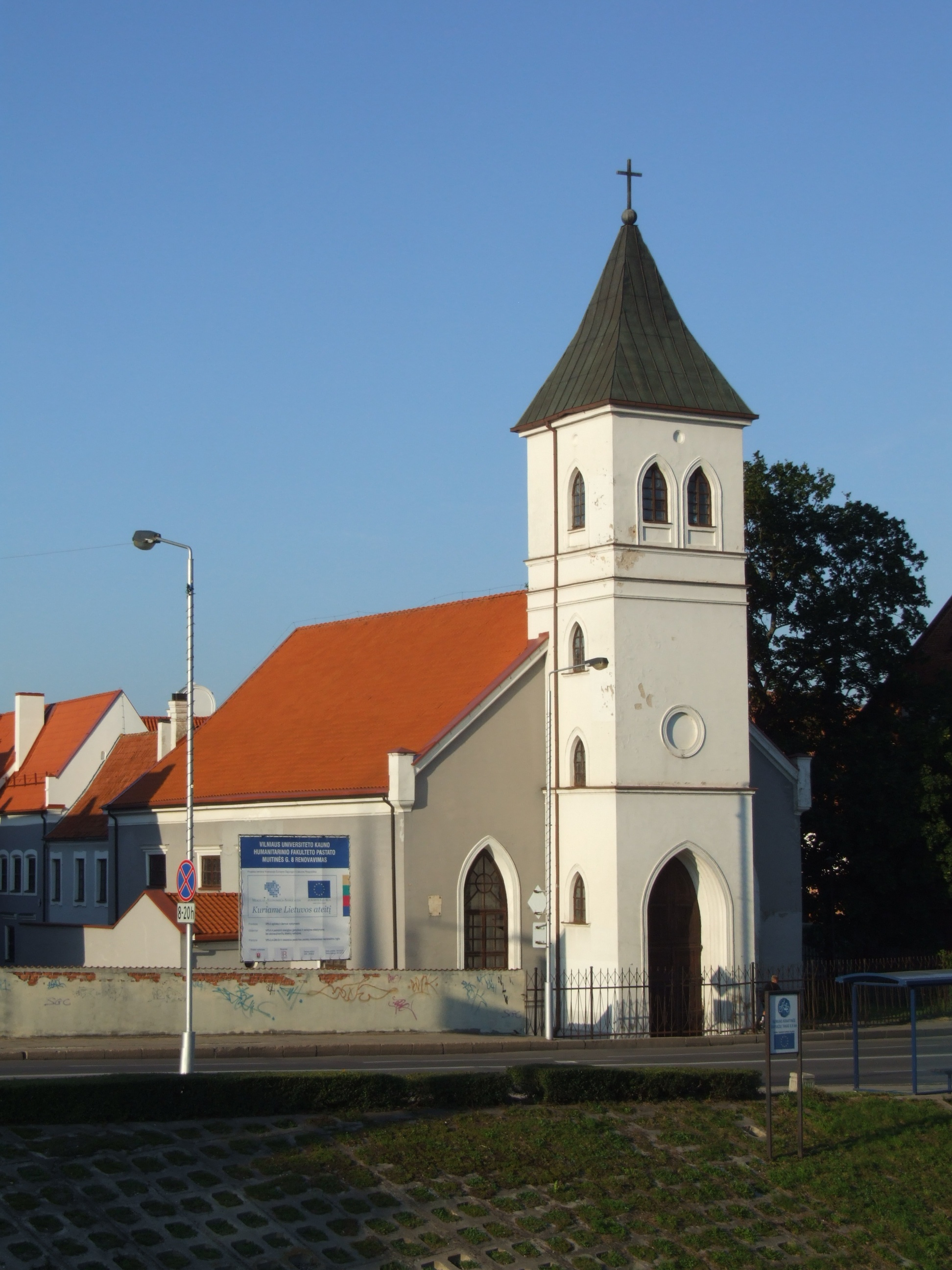 Evangelical Luteran church in Kaunas